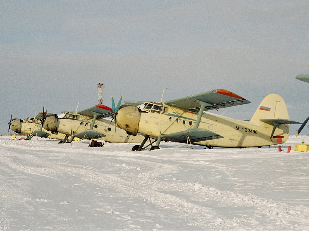 Scan photo.